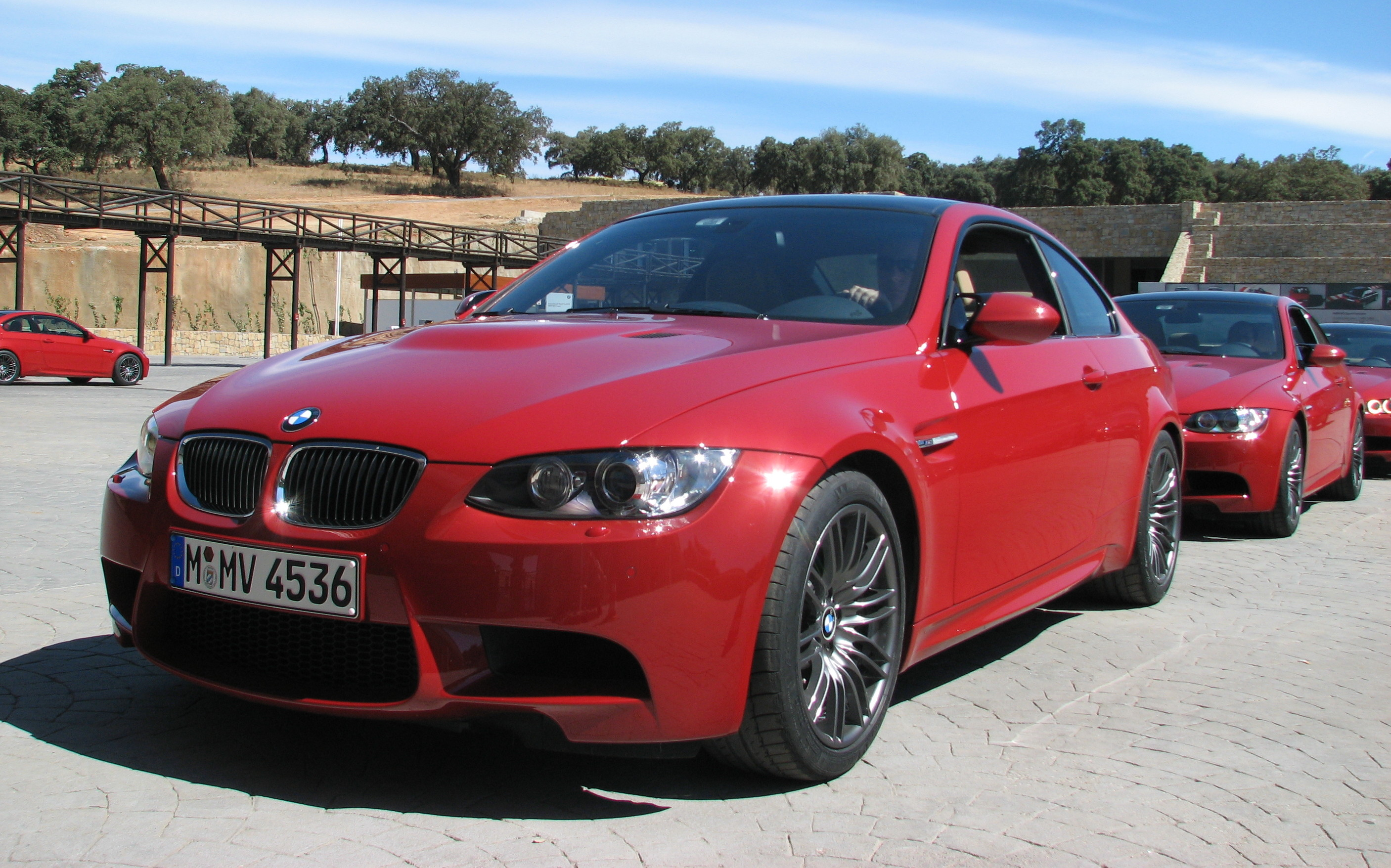 BMW M3 E92 coupe - press presentation in Marbella